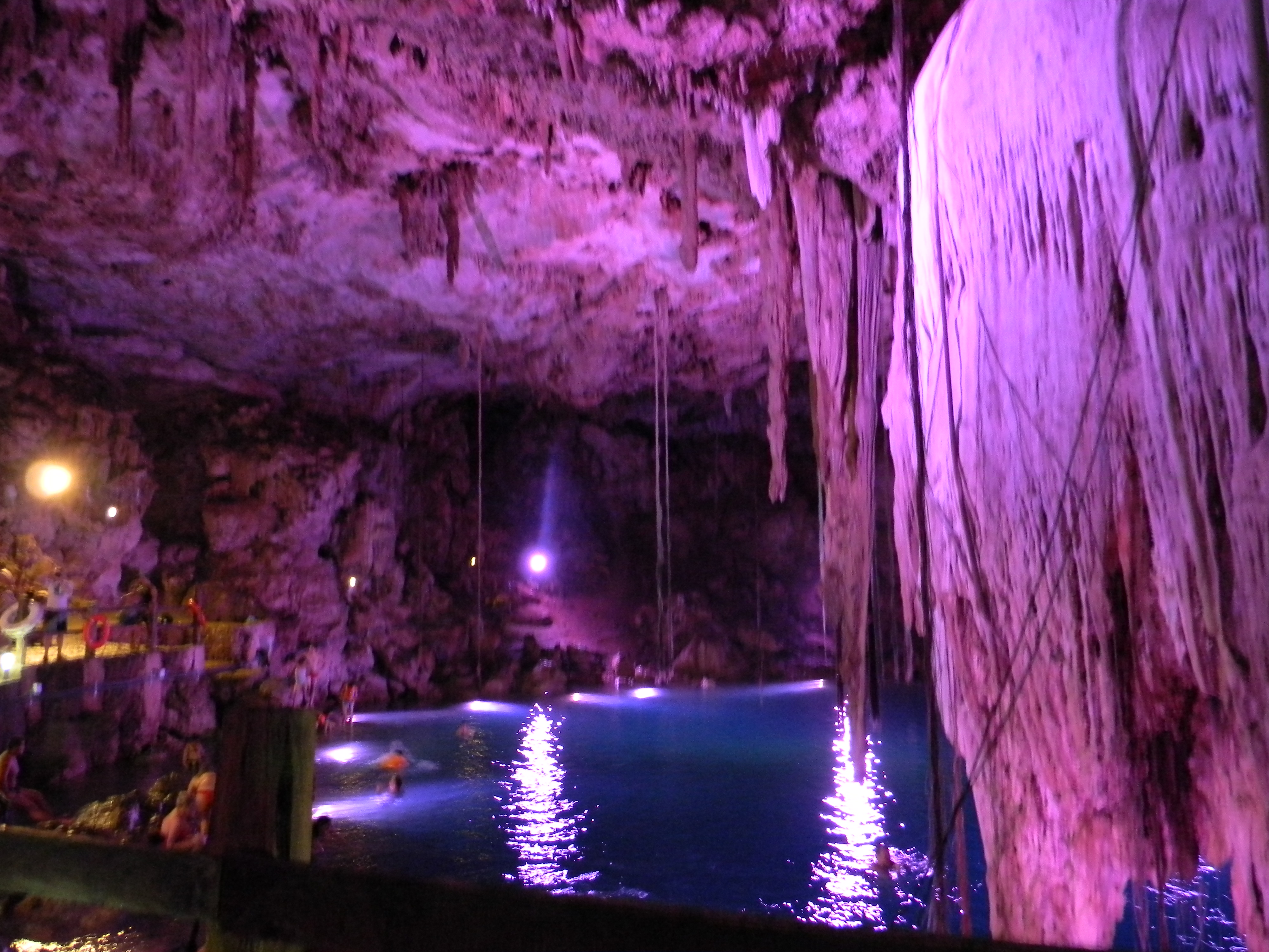 Cenote Dzitnup, 7 km. southeast of Valladolid, this cenote is underground with a hole in the ceiling.